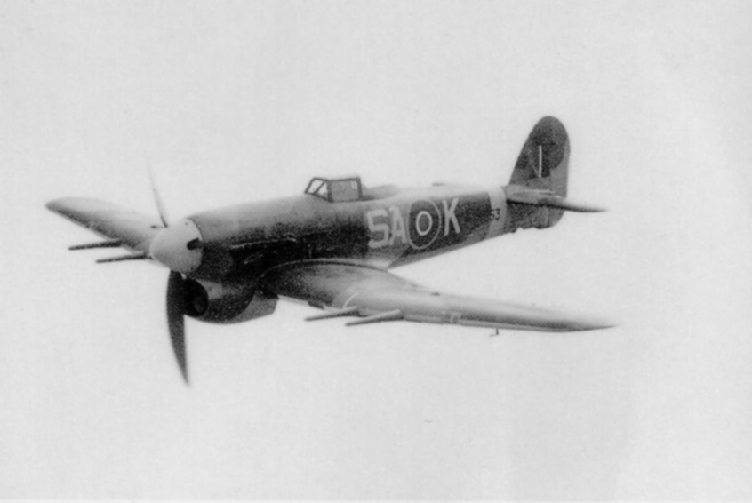 Better image of Spud Murphy's Hawker Typhoon SA-K No. 486 Squadron RNZAF, to replace the existing very similar image.